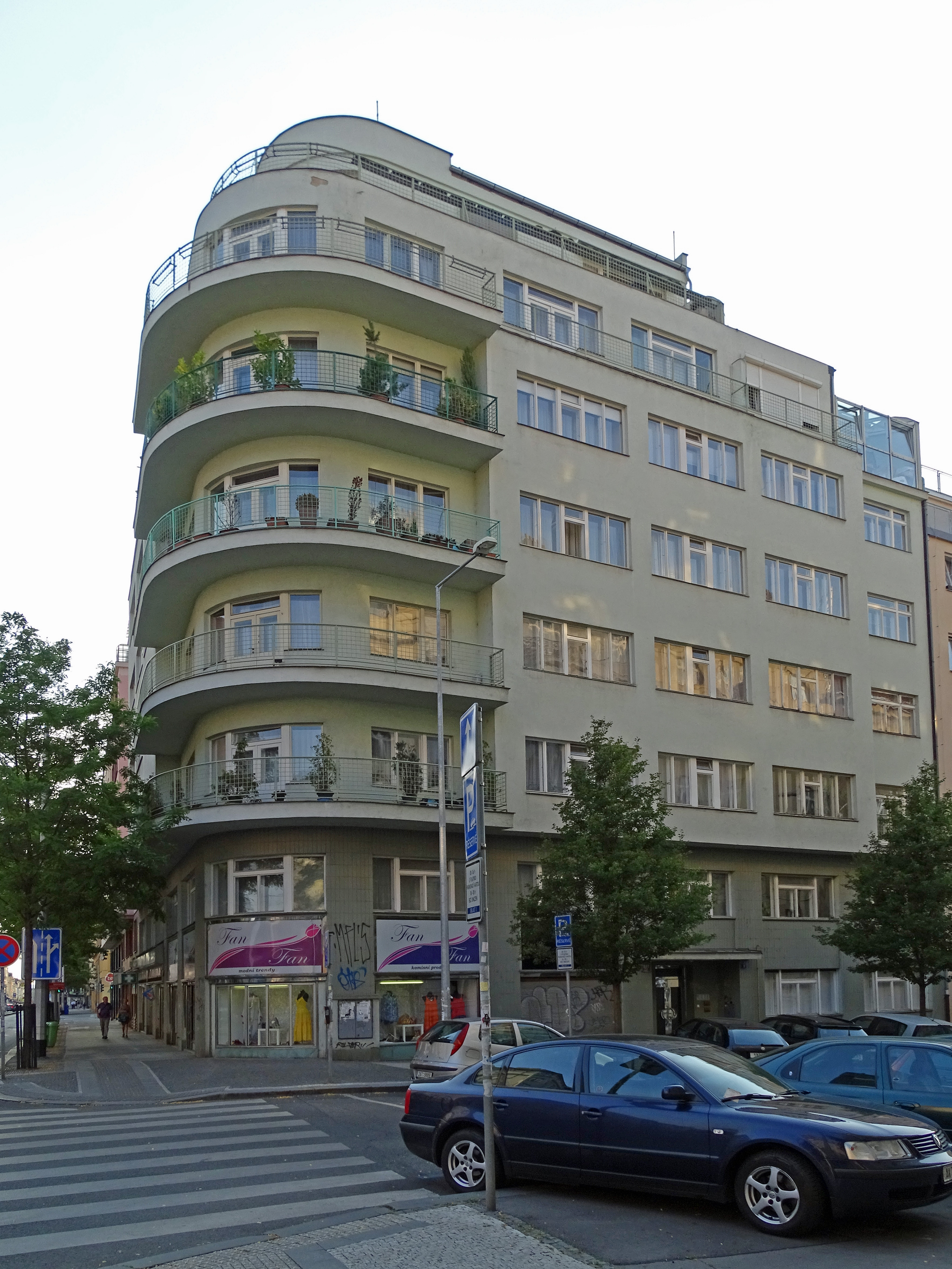 Prague-Žižkov, Czech Republic. Vinohradská 1897/141, Sudoměřská 1897/1.